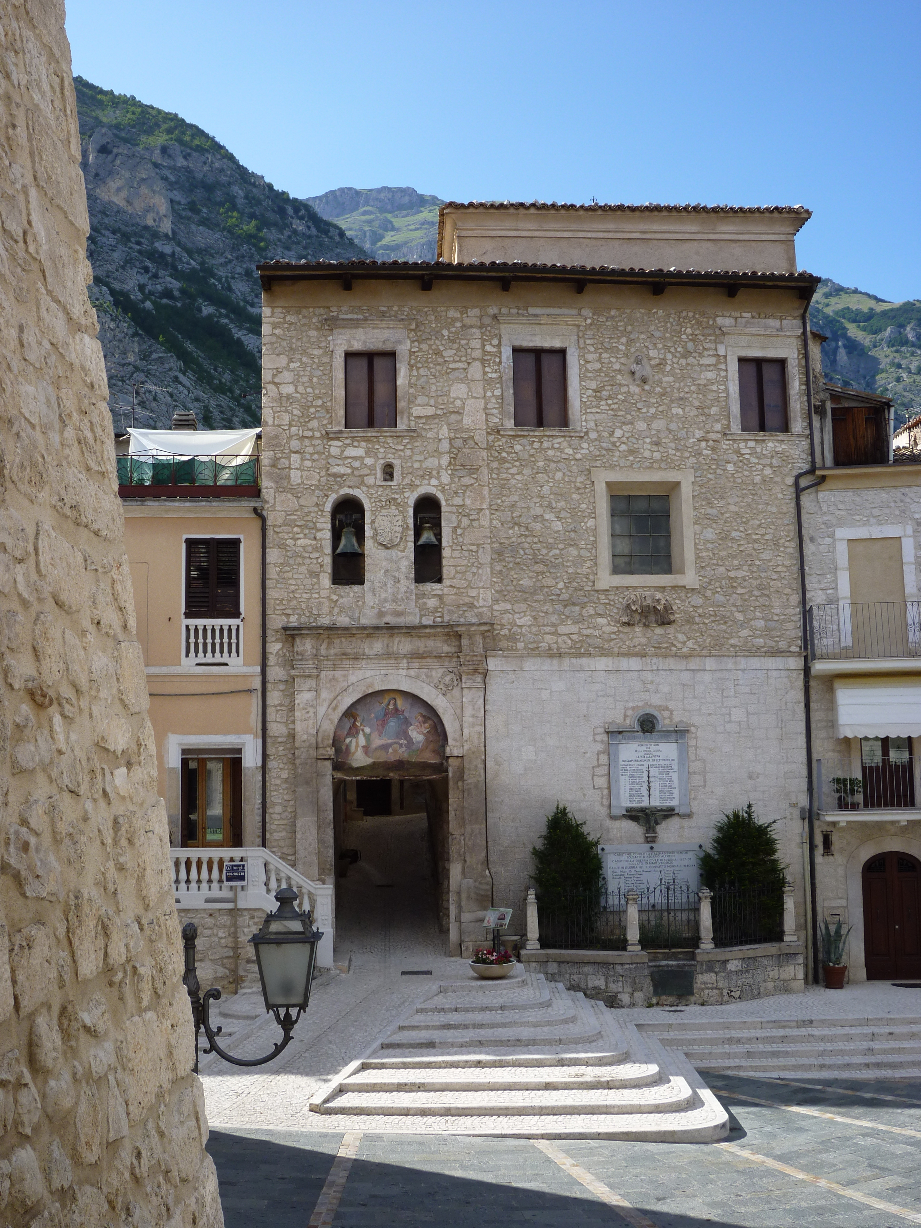 Back of the church of Santissima Annunziata, Fara San Martino, province of Chieti, Abruzzo, Italy.